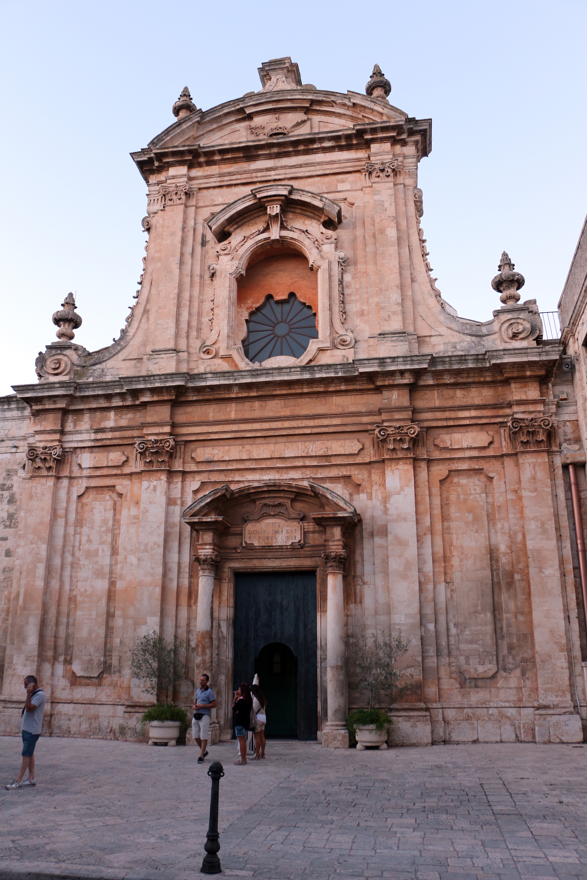 Putignano